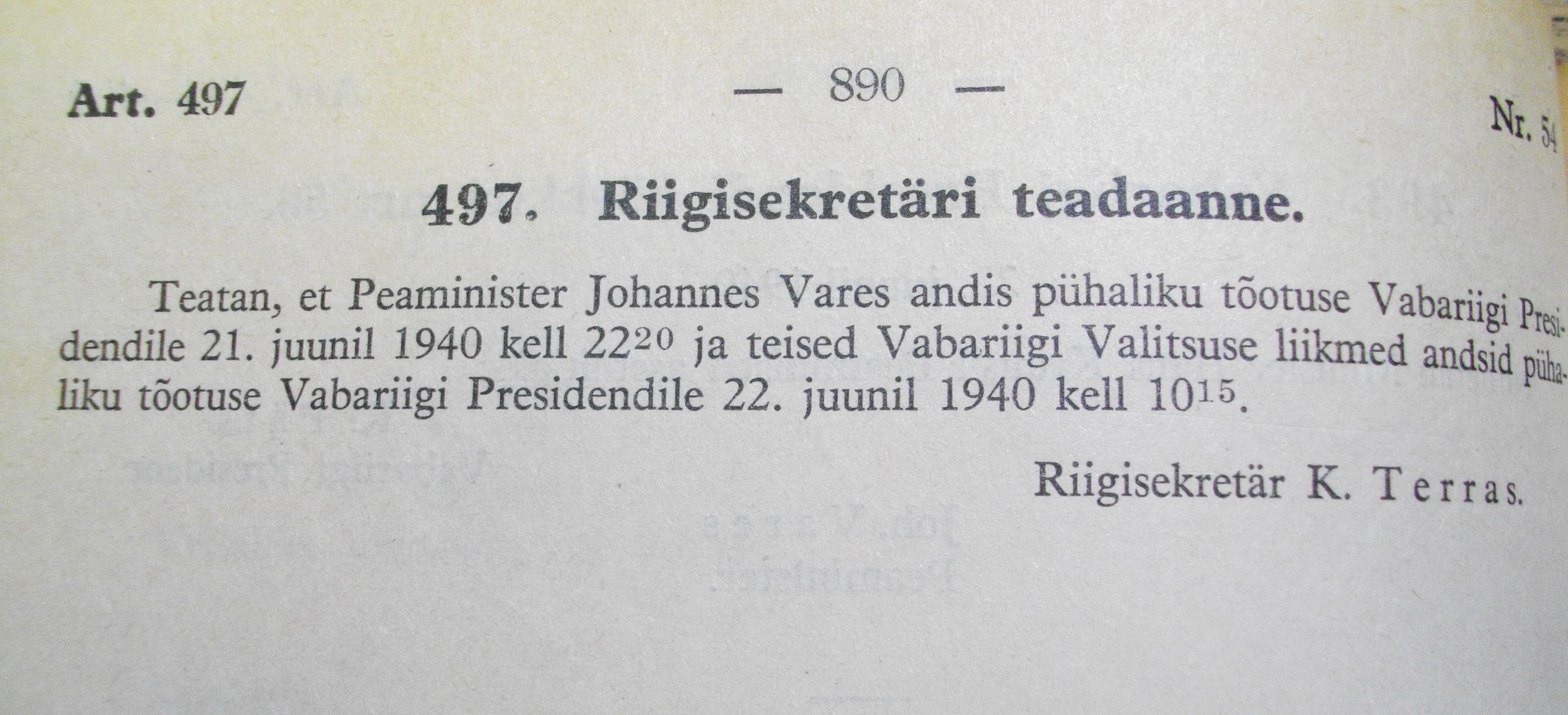 Scan from Riigi Teataja